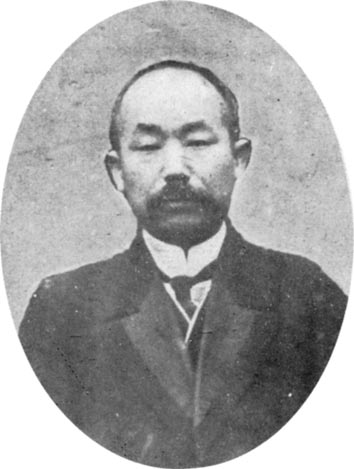 Mr. Gonichi Hita.